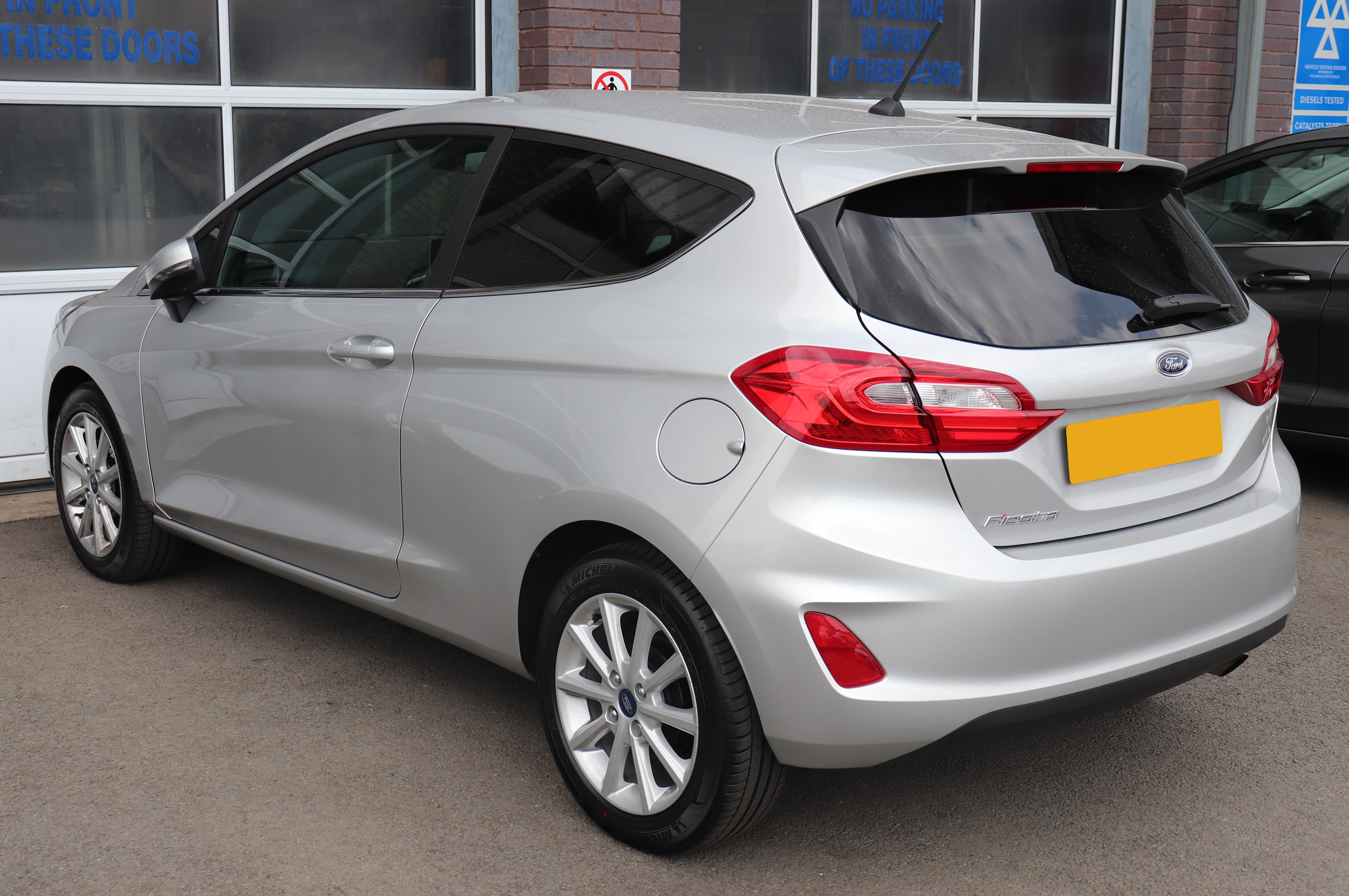 2018 Ford Fiesta Titanium Turbo 3-Door 1.0 Taken in Leamington Spa